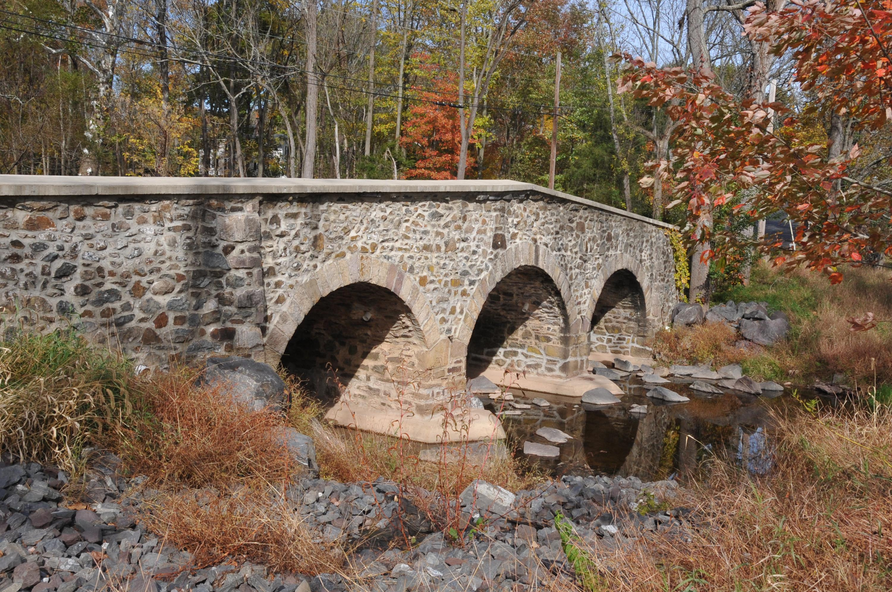 BUILT IN 1873 AND SPANS PIDCOCK'S CREEK IN SOLEBURY GTOWNSHIP